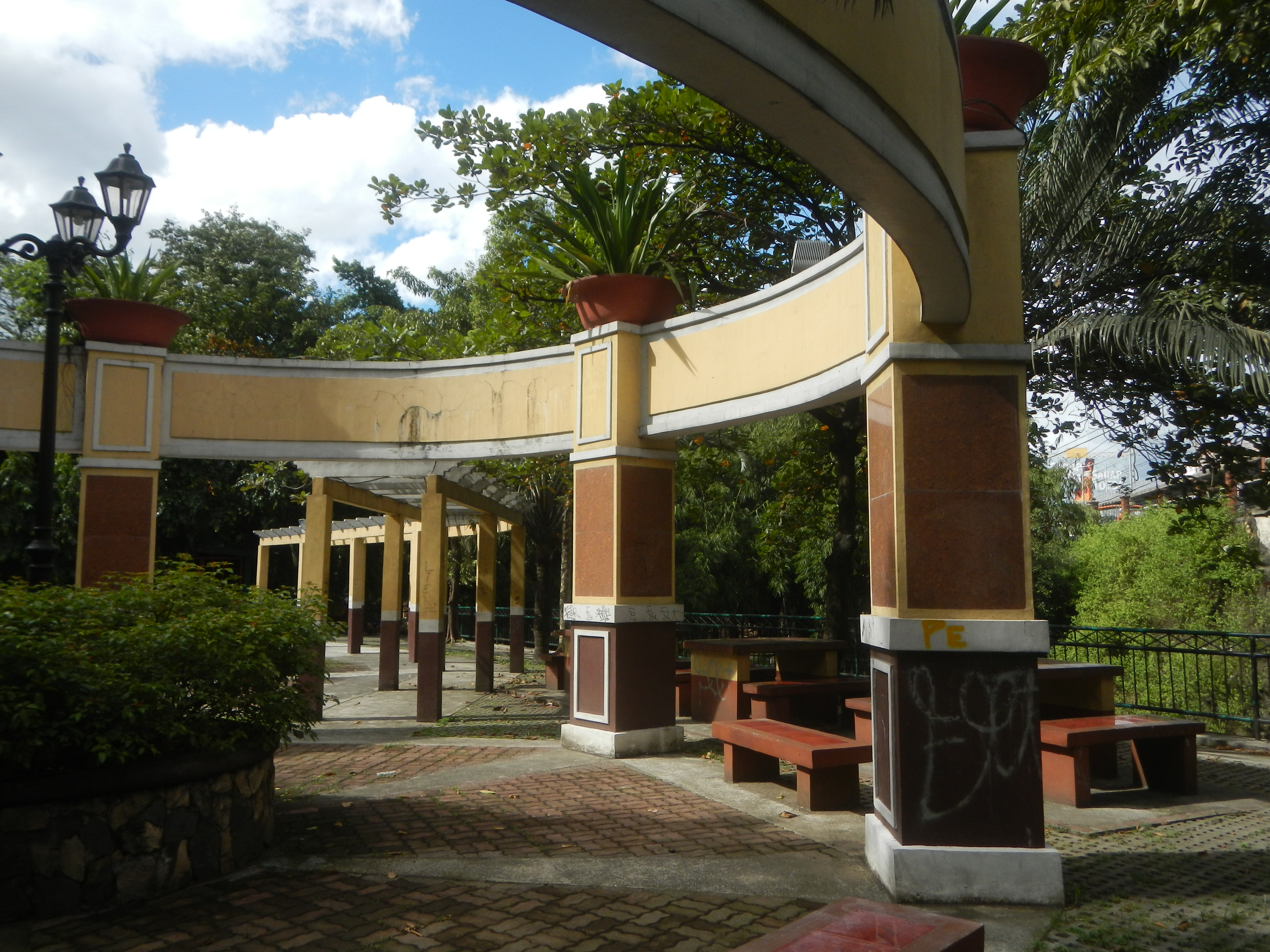 Ermin Garcia Street - Footbridge - Lagarian Bridge I, Lagarian Creek - Pinagkaisahan steel bridge, EDSA, Quezon City Ramon Magsaysay (Cubao) High School (RMCHS) in the List of barangays of Metro Manila Legislative districts of Quezon City Districts 3, Barangays of Quezon City, Barangay Pinagkaisahan 14°37'33"N 121°2'34"E along Ermin Garcia Street 14°37'47"N 121°3'15"E corner Denver Street District IV, Cubao, Quezon City upon the List of rivers and estuaries in Metro Manila San Juan River (Metro Manila) Estuaries in Cubao, Quezon City along Aurora Boulevard (Note: Judge Florentino Floro, the owner, to repeat, Donor Florentino Floro of all these photos hereby donate gratuitously, freely and unconditionally all these photos to and for Wikimedia Commons, exclusively, for public use of the public domain, and again without any condition whatsoever).